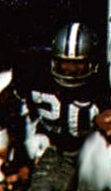 Dallas Cowboys cornerback Mel Renfro pictured in a defensive play during Super Bowl V.